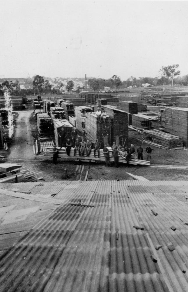 Carrick's Sawmill at Enoggera, ca. 1922 View from Carrick's Sawmill, looking towards Farrington's Hill, Alderley. Virginia Brickworks' chimneystack is visible in the middle distance. (Description supplied with photograph). Saw-milling was an important local industry during the late 19th and early 20th centuries. There was an abundance of pine at Everton Park, and cedar, silver ash and later brush box at Mount Glorious. The Poultney family began saw-milling at Everton Park and then moved the mill to Pickering Street, close to Enoggera Railway Station. They sold this mill to Carricks in 1911. (information taken from: Barbara Gunn and Maureen Shannon, Enoggera district heritage trail, 2001).